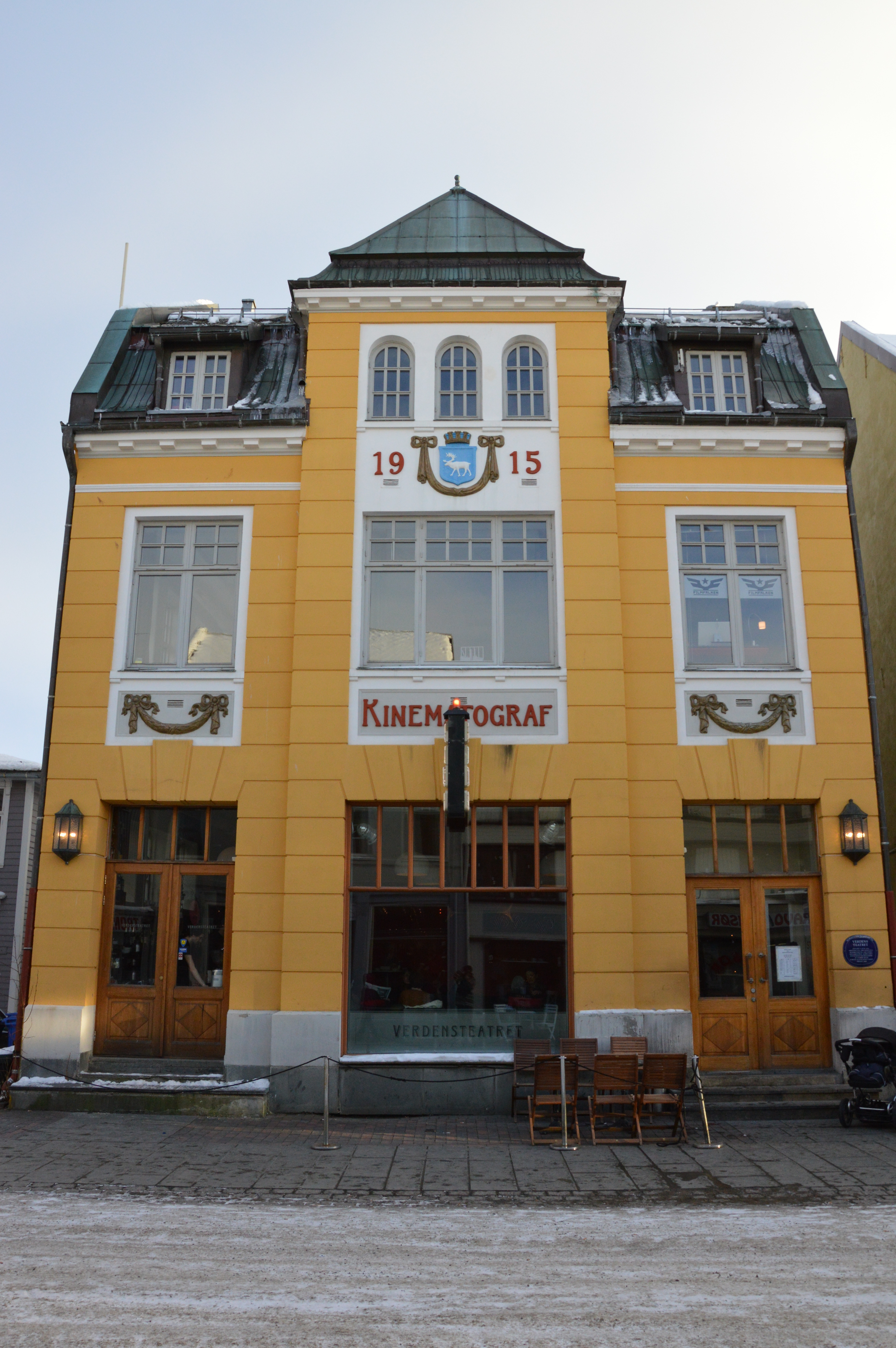 Verdensteatret (Verdens, Theatre) in Tromsø, Norway. Construction completed June 4, 1916 by B. Albrightsen, designed by architect P.A. Amundsen.Interior murals by Sverre Mack. Norway's oldest cinema in operation.